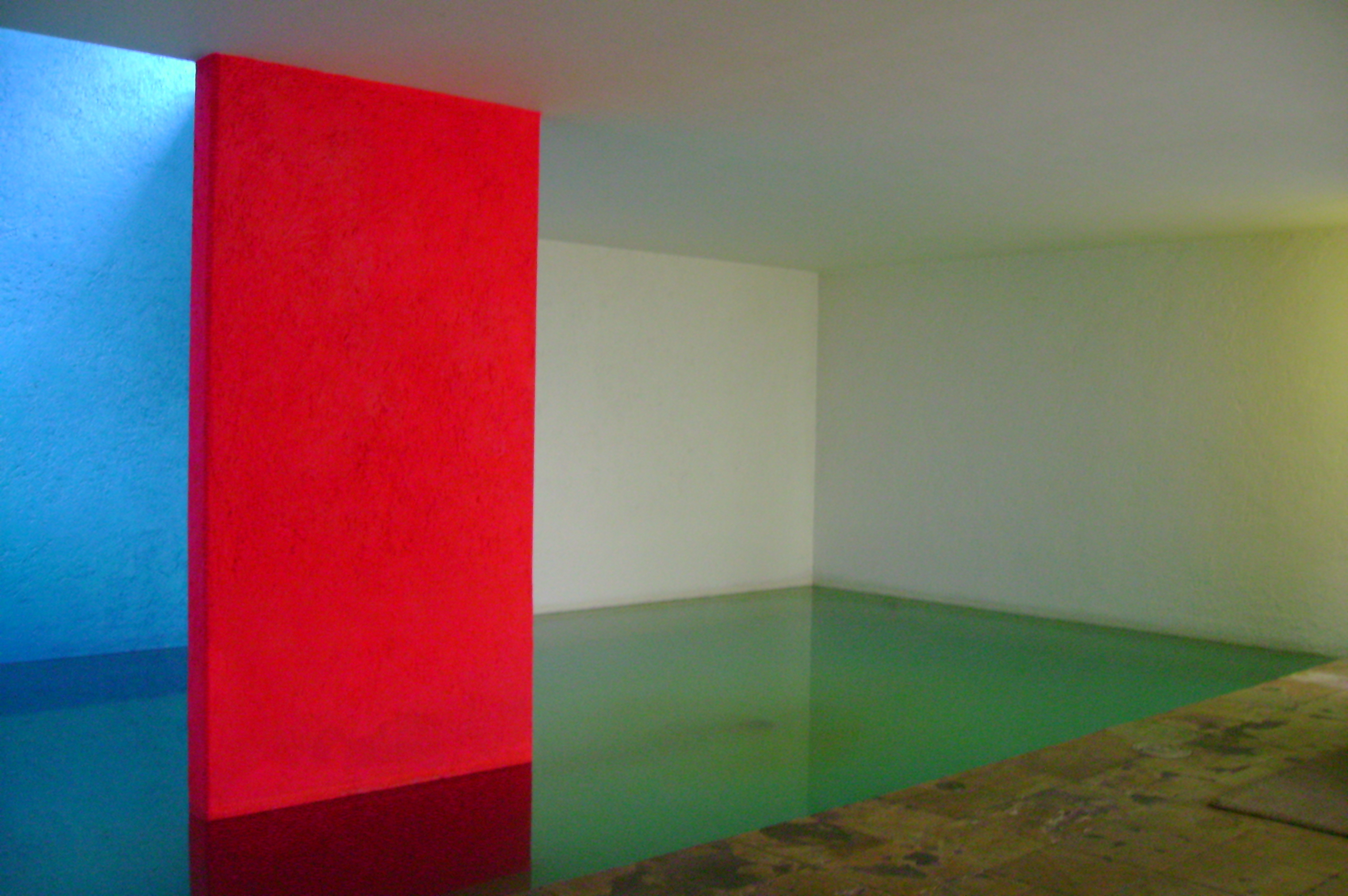 Fountain of Casa Gilardi, designed by the Mexican architect Luis Barragán, in Mexico City, Mexico.